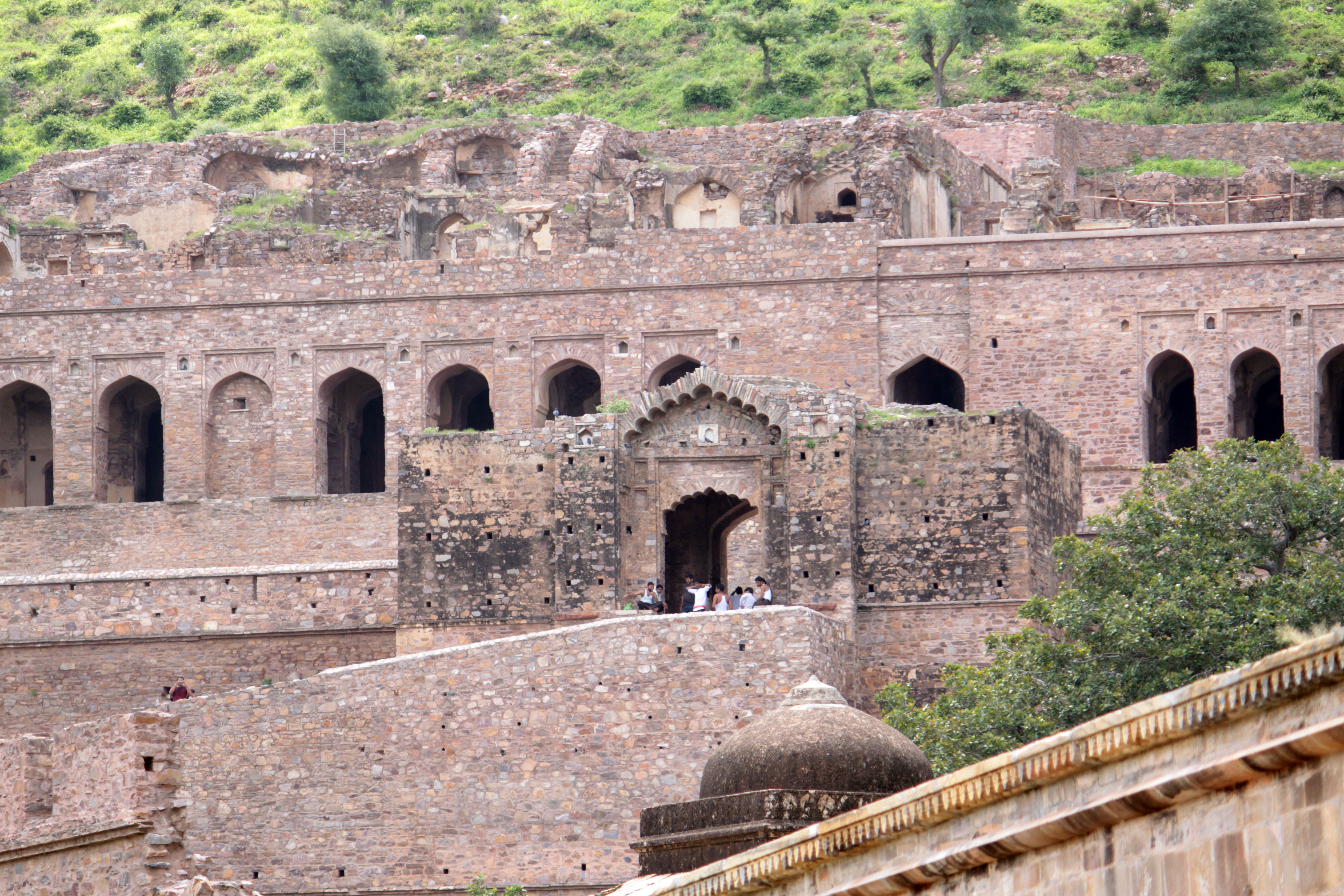 Picture of Bhangarh Fort